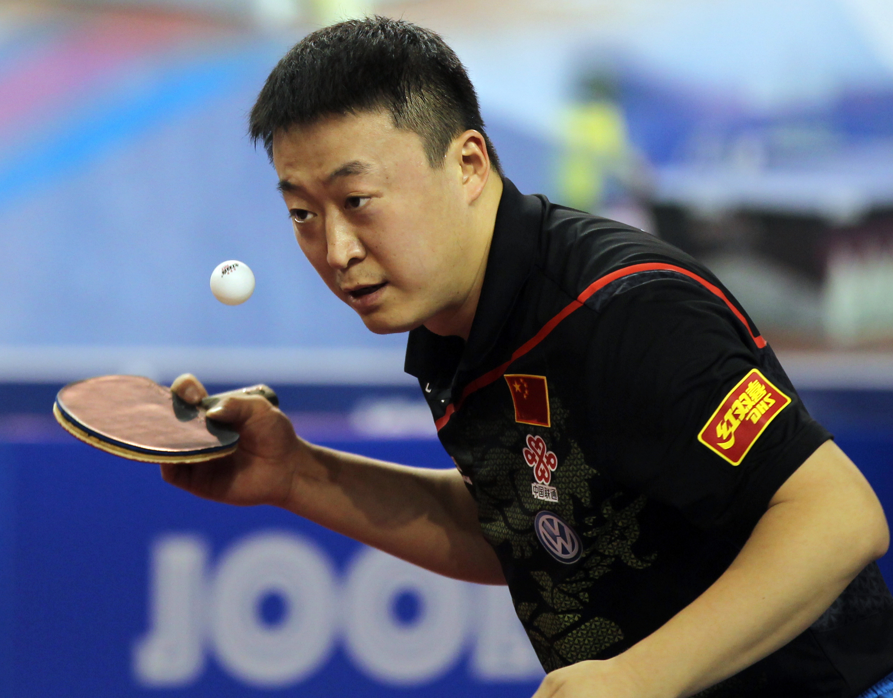 China's Ma Lin serves during the men's doubles final of the Qatar Open table tennis at the Qatar Women's Sport Committee Indoor Hall.